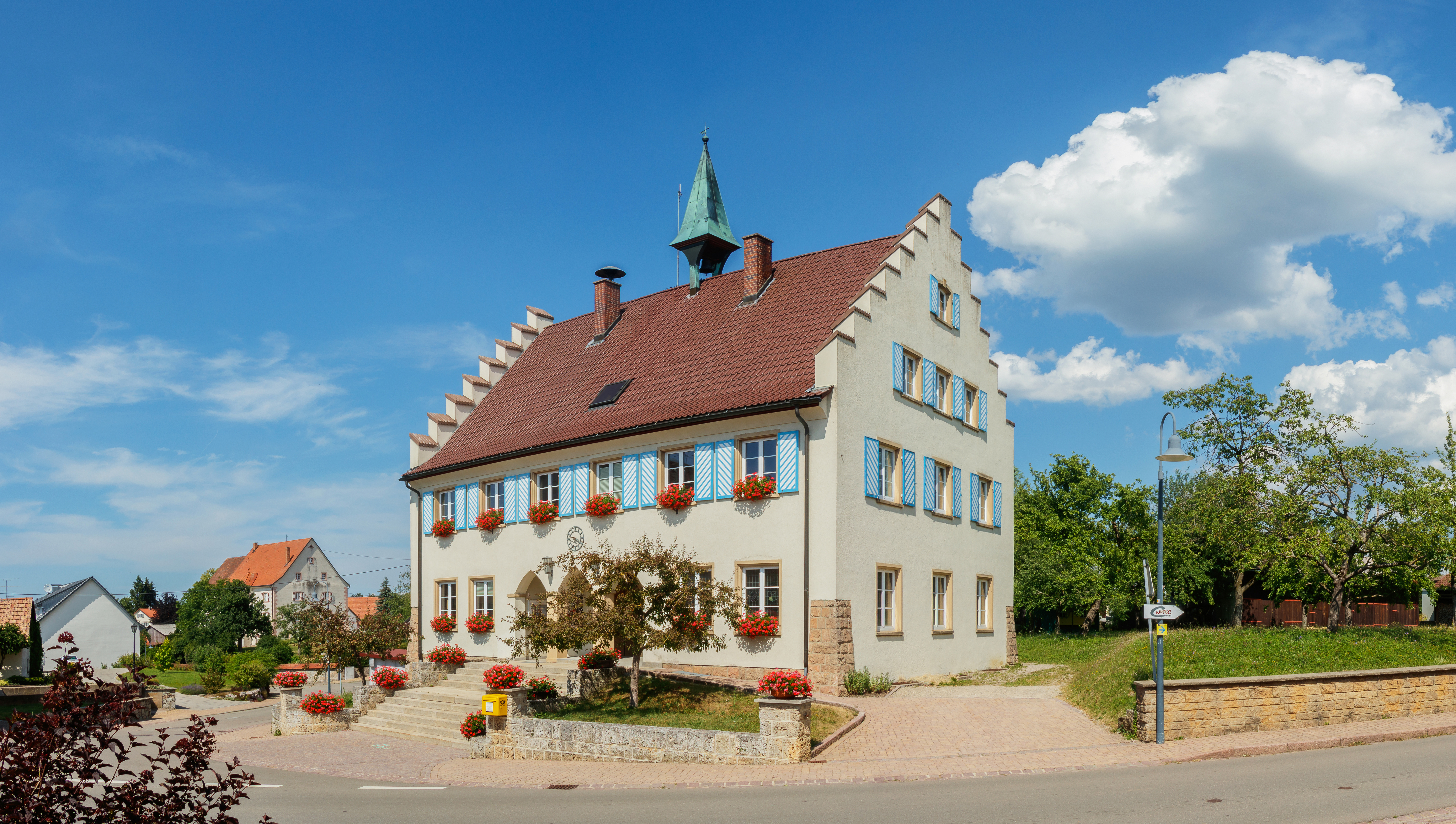 Townhall of Wutach-Ewattingen, Baden-Württemberg, Germany.